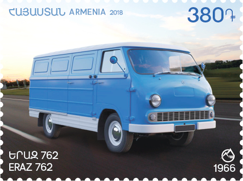 The postage stamp with nominal of 380 dram depicts the vehicle “ErAZ 762” produced from 1966 to 1996 by Yerevan Automobile Factory.